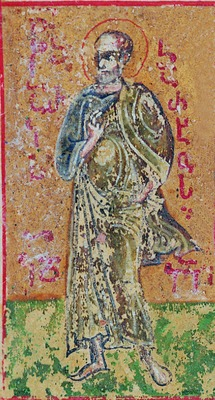 Aristarchus, Georgian miniature